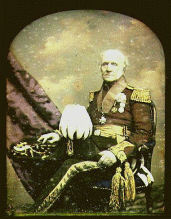 Photograph of Sir Henry Goldfinch (1781–1854)